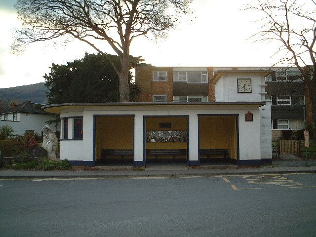 Barnards Green Memorial Bus Shelter. Dedicated to those that fell in the 2nd World War. A modern plaque adds "Because the war to end all wars didn't".